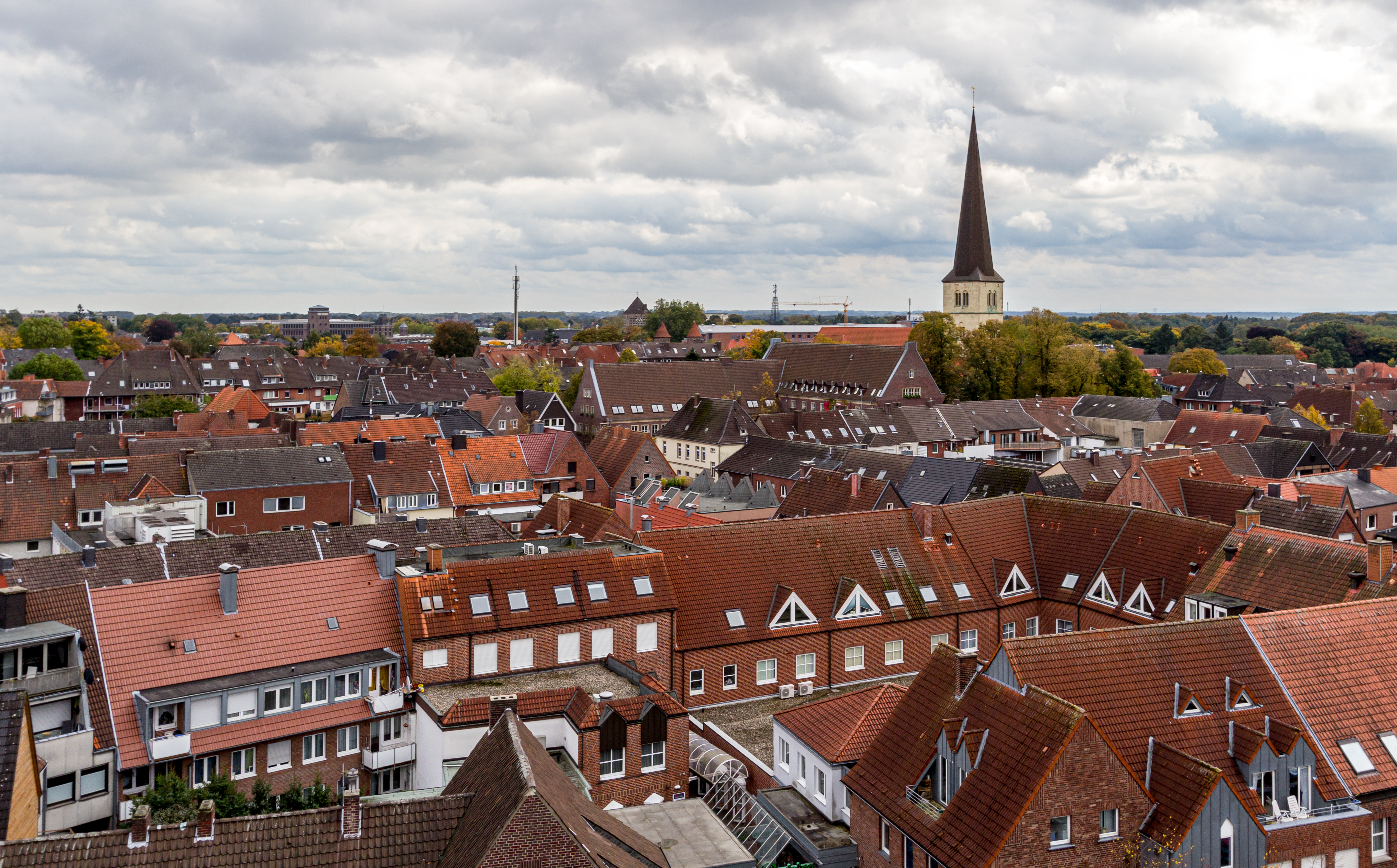 Dülmen, North Rhine-Westphalia, Germany